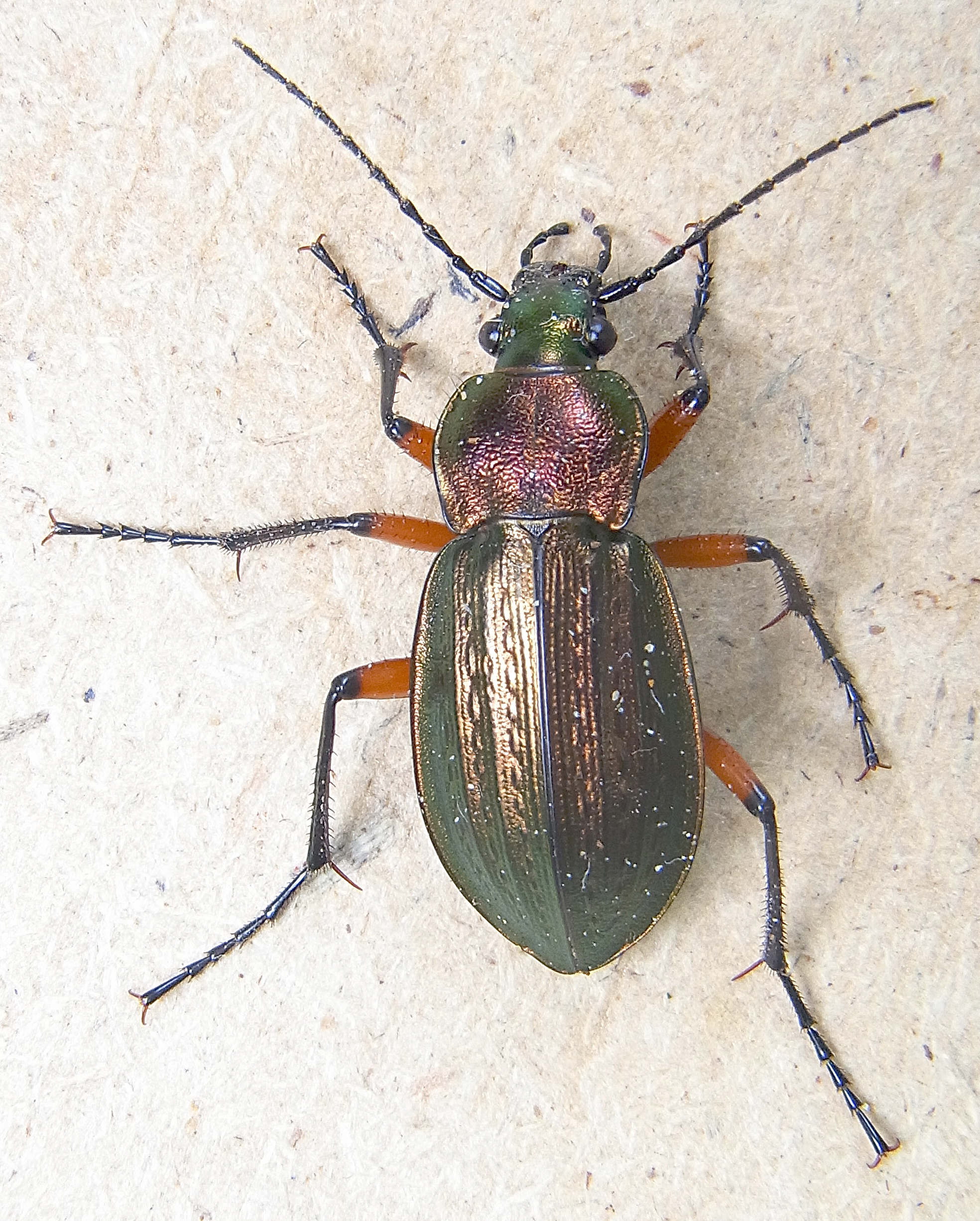 Carabus arcensis ssp. sylvaticus from France, about 30 km north-east of Lyon in forest 'Foret de la Réna'